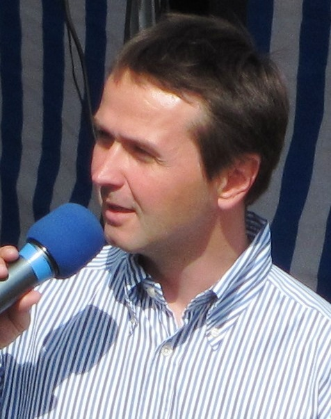 Vlastimil Korec, Czech actor and TV moderator